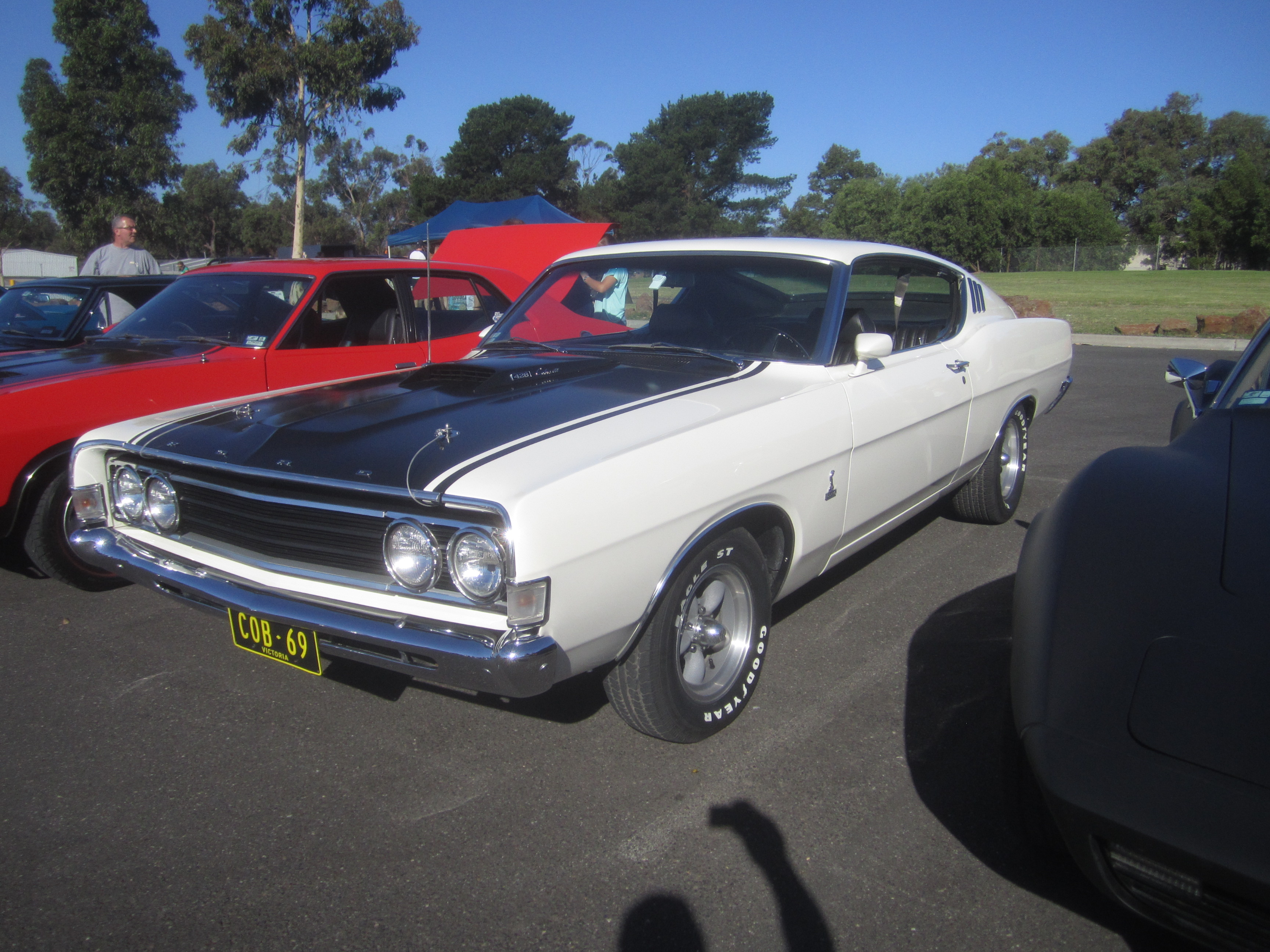 The Torino was built from 1968-76, the 1st generation, 1968-69 was an upmarket version of the Fairlane. The standard Torino was available as a 2 door hardtop, 4 door Sedan and Squire wagon, the Torino GT was available as 2 door hardtop, 2 door Sports Roof and Convertible.1969 saw a minor facelift to the grille and taillights The GT was available with either 302 or 351 Windsor or 390FE V8s and the Cobra Jet option got the 428 with or without Ram Air. The top engine was the 428 Super Cobra Jet designed for drag racing